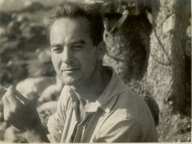 Janko Ravnik (1891-1972)